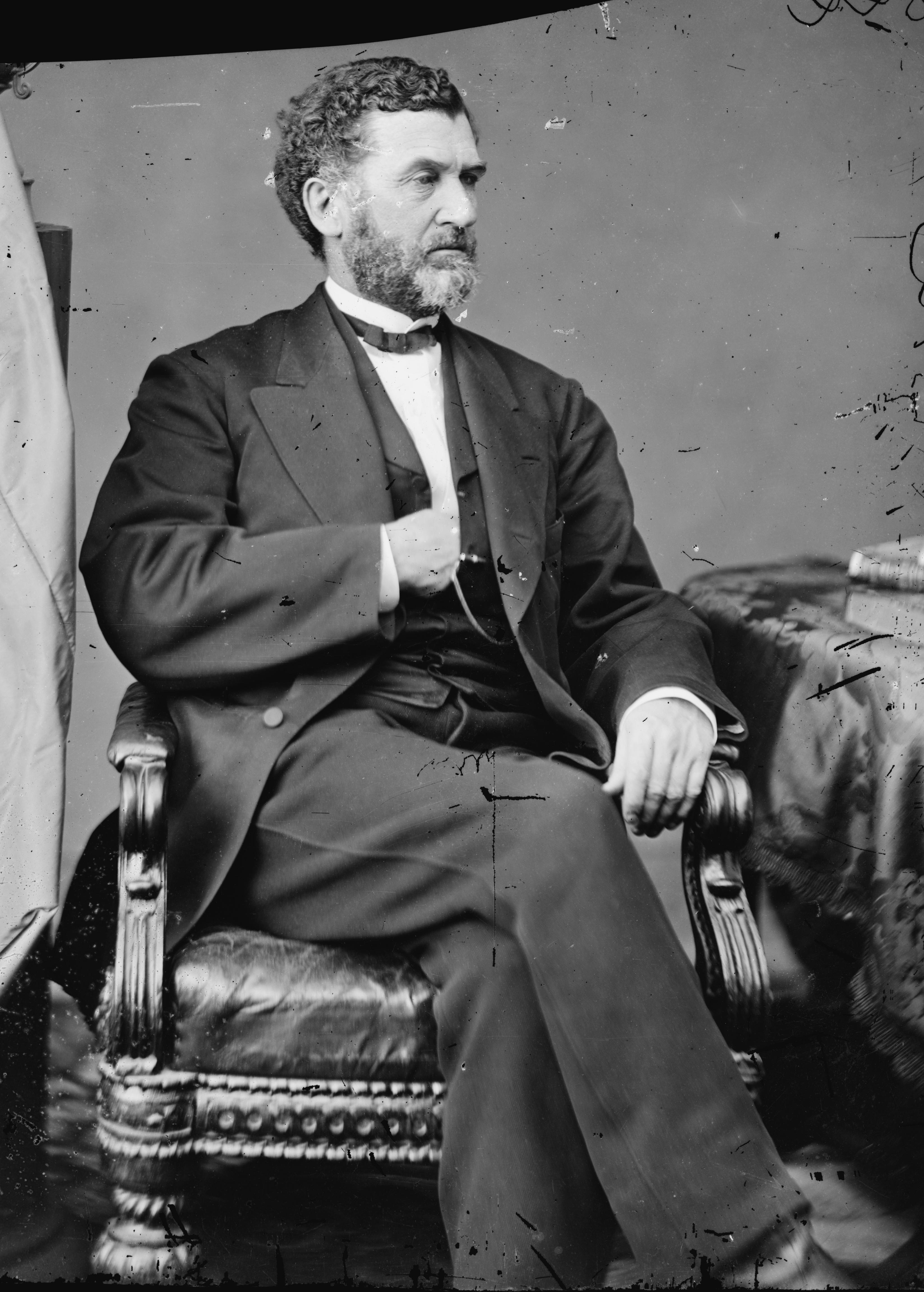 Charles D. Drake. Library of Congress description: "Hon. Charles Daniel Drake of MO."